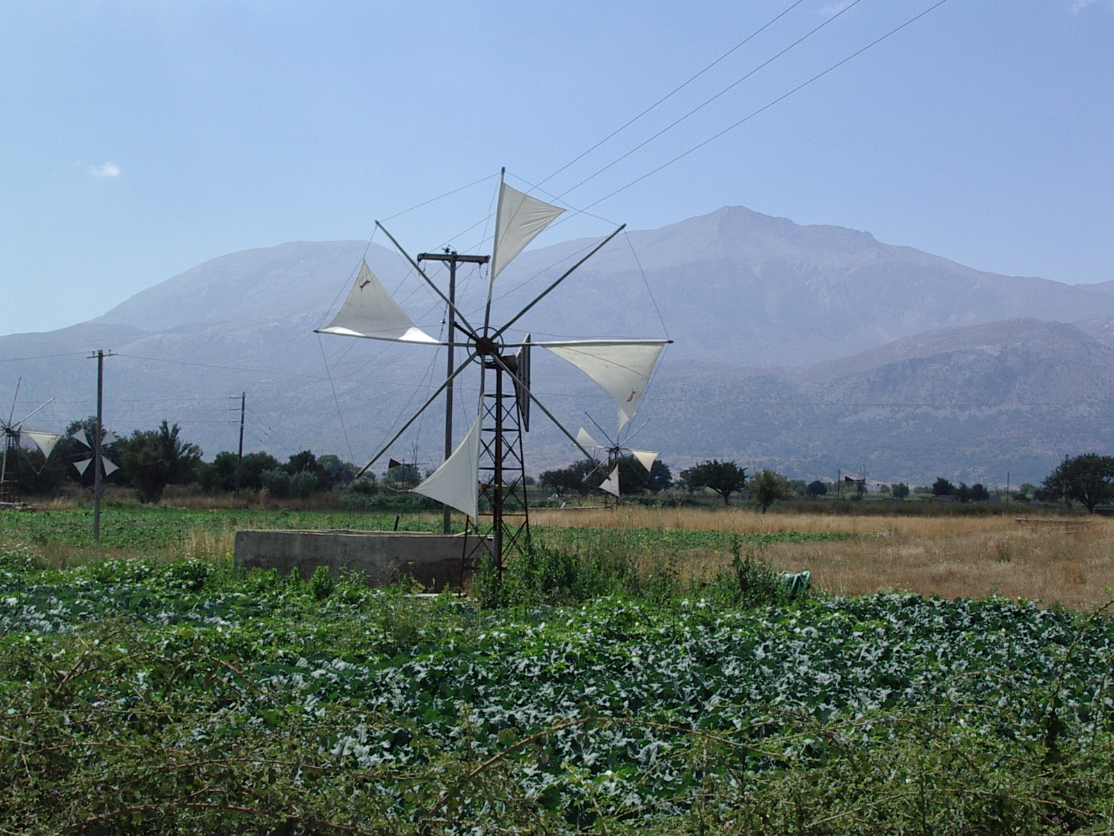 Lasithi Plateau